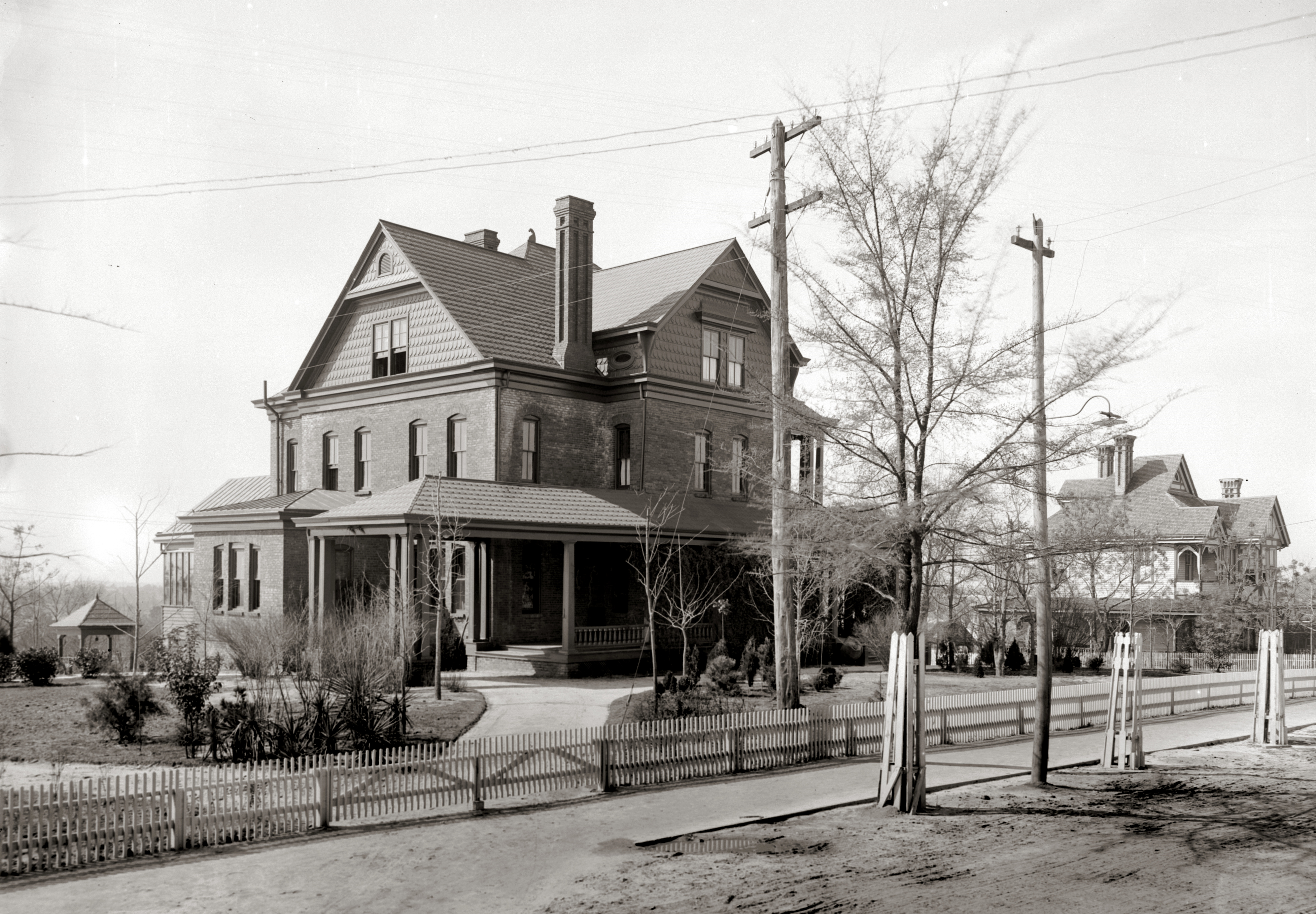 "The Oaks", former home of Booker T. Washington located on the Tuskegee University campus in Tuskegee, Alabama. The building is a contributing property to the Tuskegee Institute National Historic Site and National Landmark.